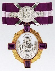 Order of Princess Olga, 2nd class